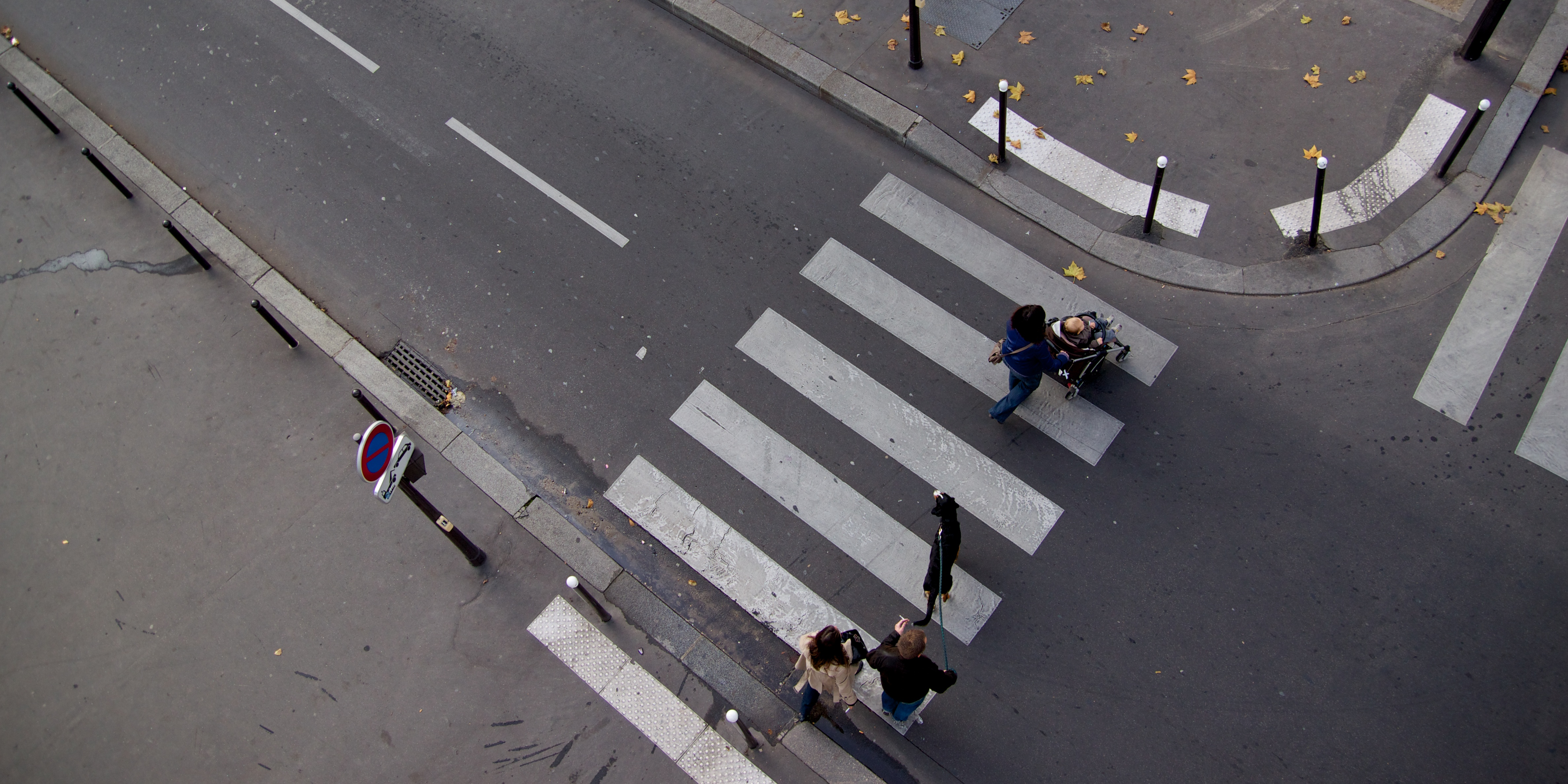 Paris street corner, from the promenade plantee.